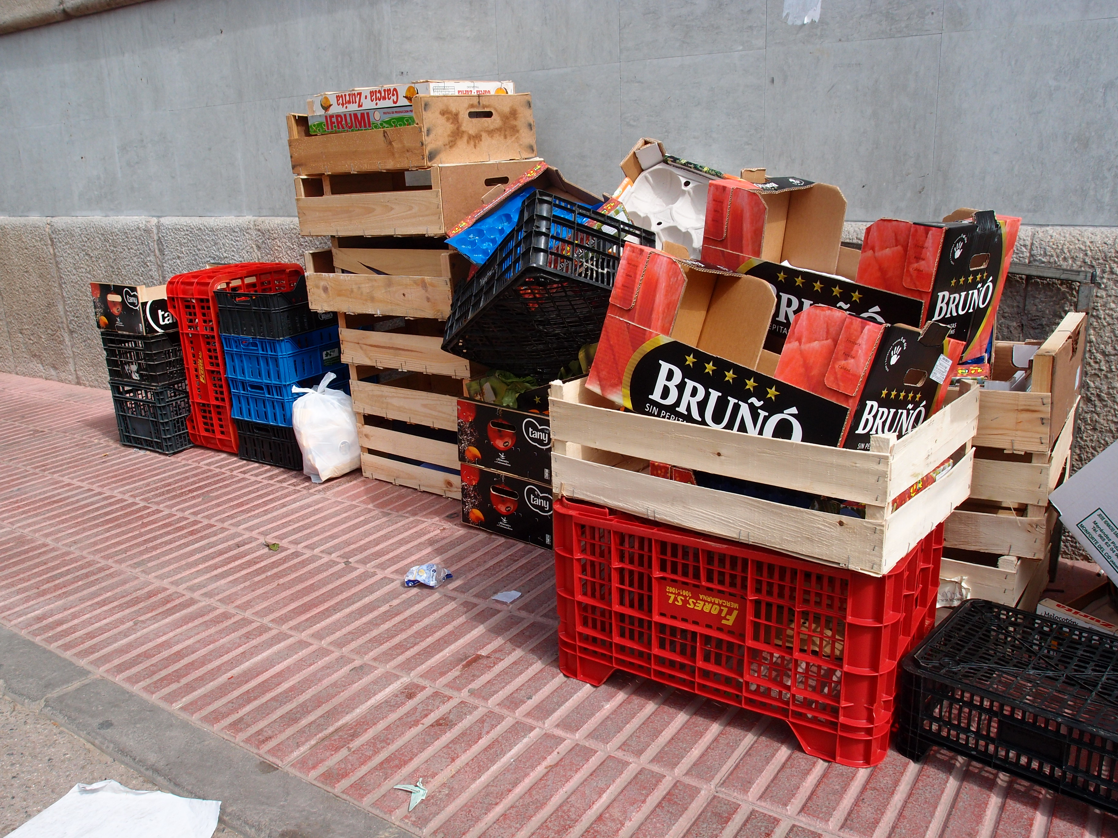 Empty cates at a market in Sant Feliu de Guixols. Datum: 14.09.2010 Urheber: Michael Pfeiffer alias Benutzer:Gordito1869 Quelle: privates Fotoalbum des Urhebers